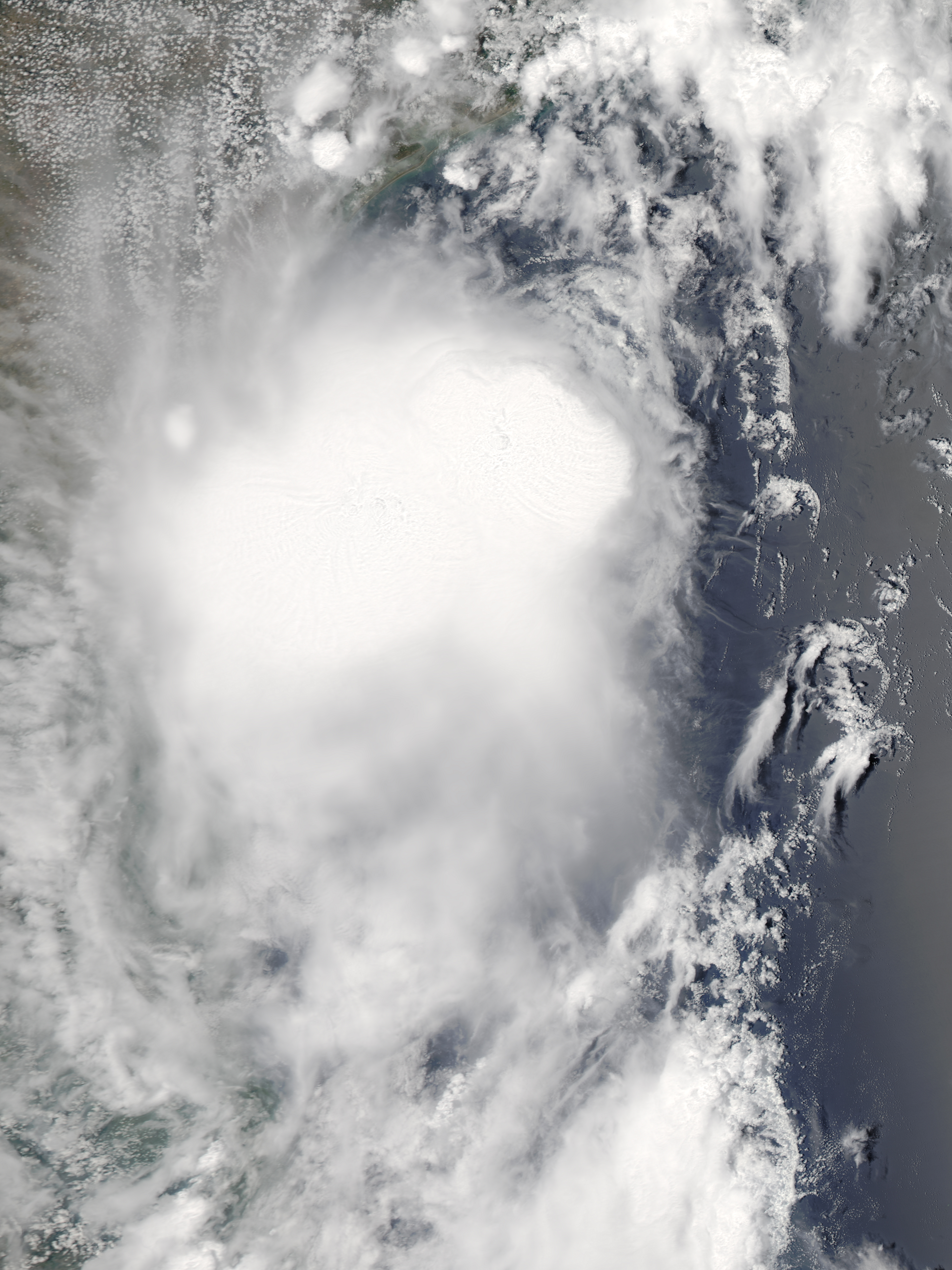 Tropical Storm Don before it's landfall on Texas, July 29, 2011.